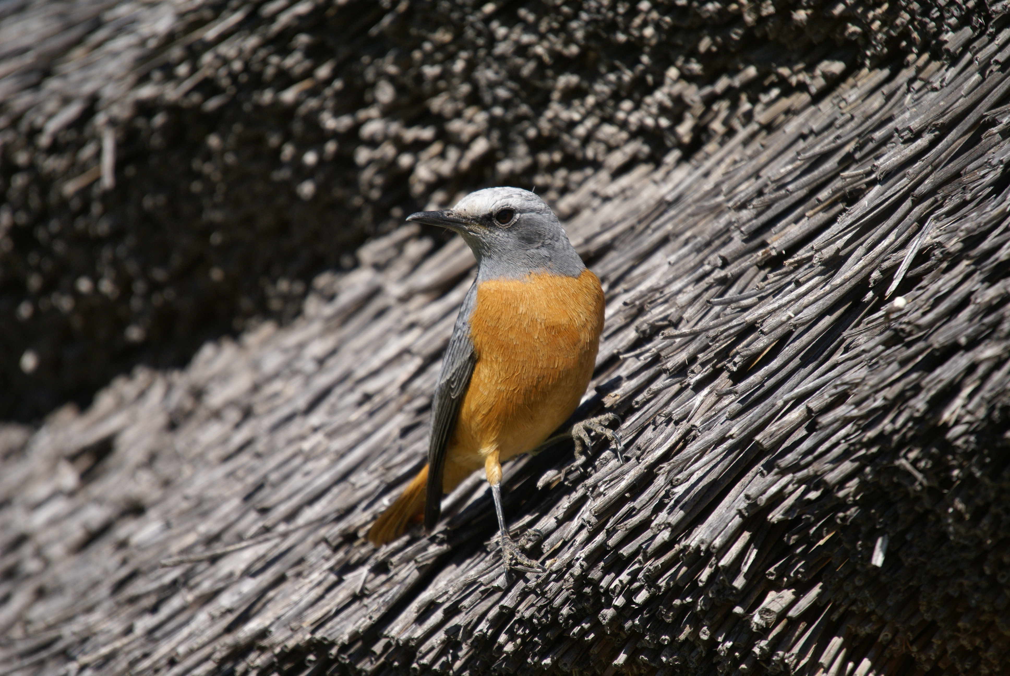 Monticola brevipes male in Namibia